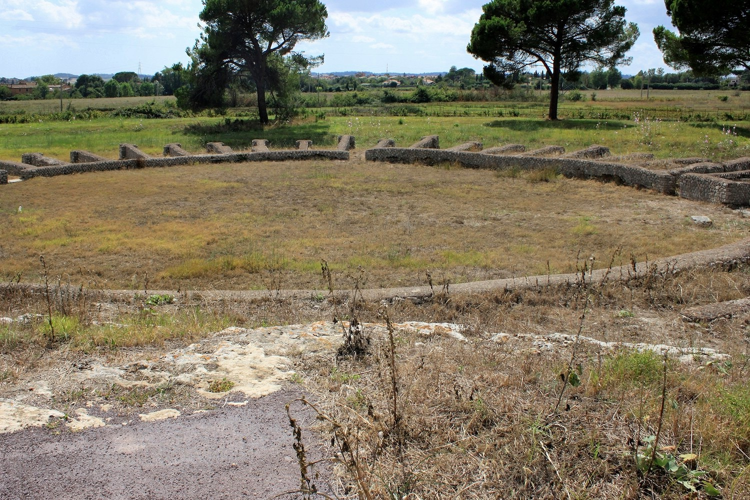 Lucius Feroniae (Italy). The amphitheater.